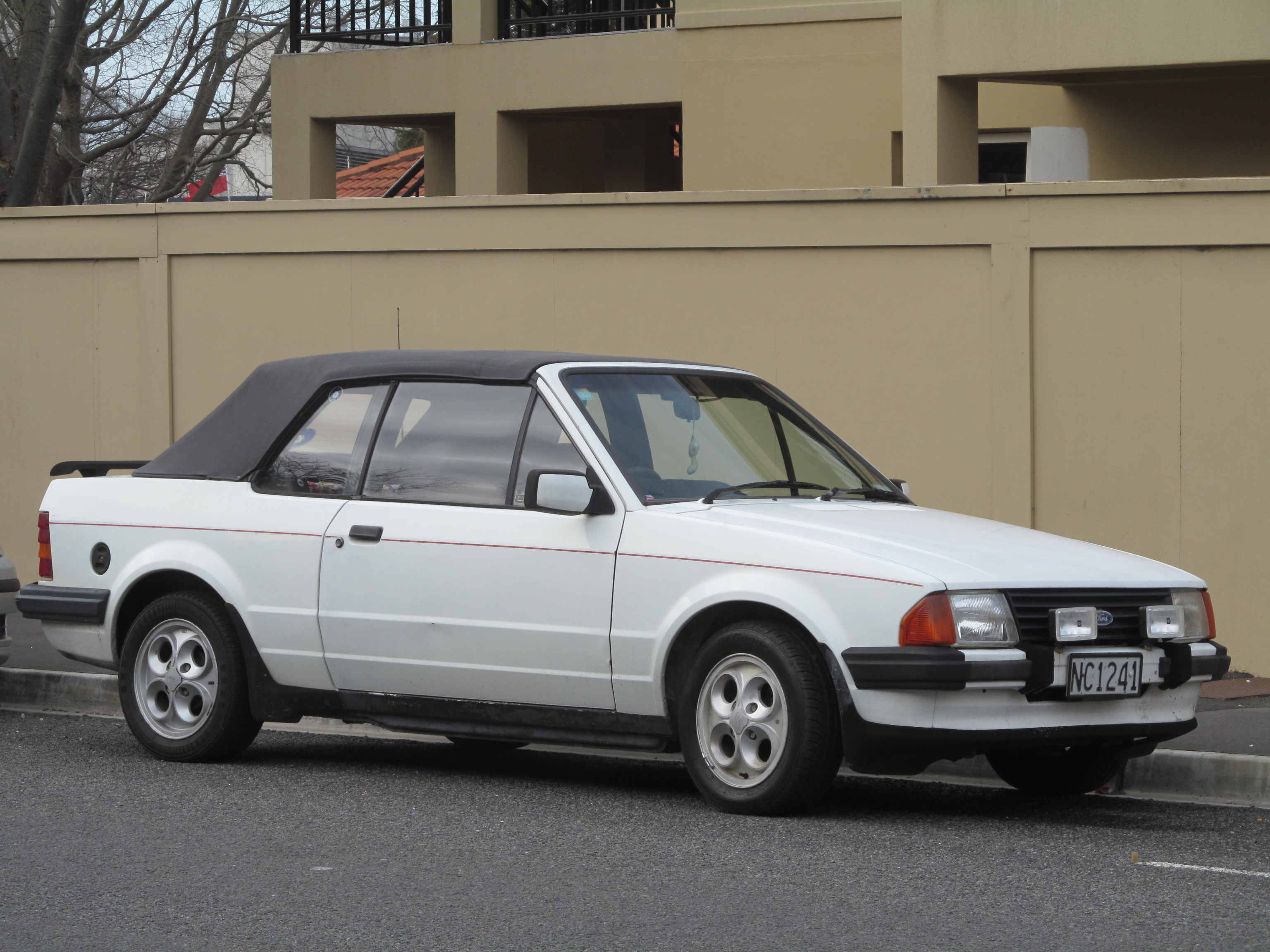 A UK import from 1987. These Mk3 Escorts were not officially sold new in NZ, but around this time a lot of European and British prestige models were being imported second hand (I wouldn't call a Mk3 Escort prestige, though this one is an XR3i and a convertible.)